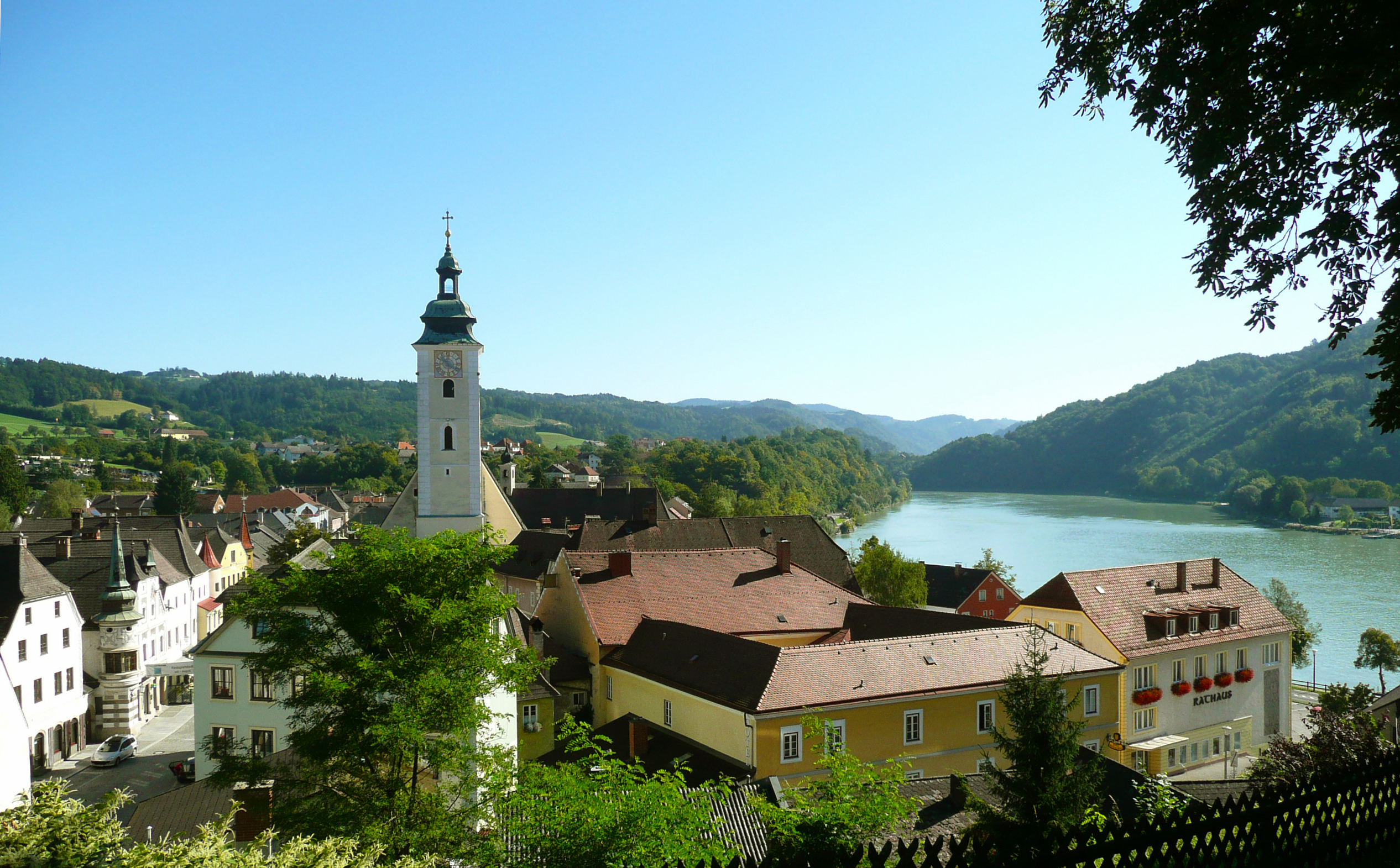 The Grein village and the Danube, from the castle.